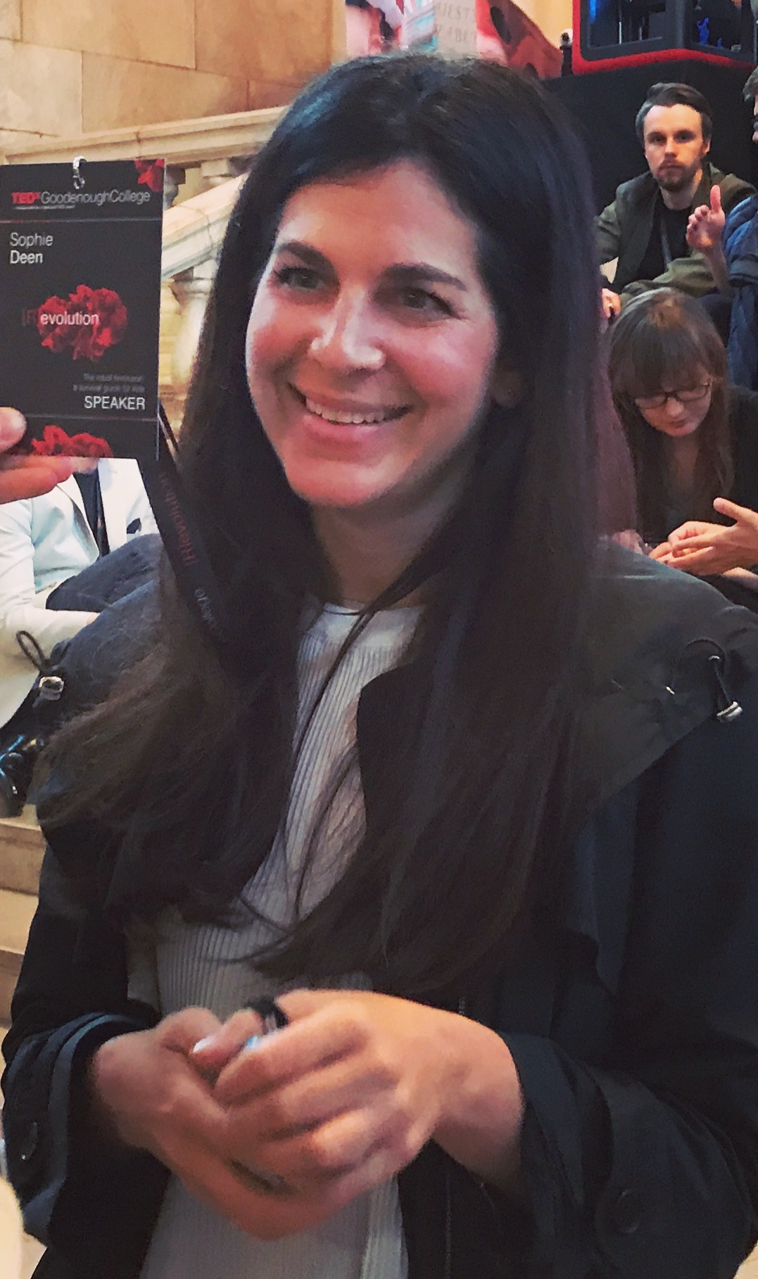 Children’s author Sophie Deen at TEDx Good Enough in May 2017